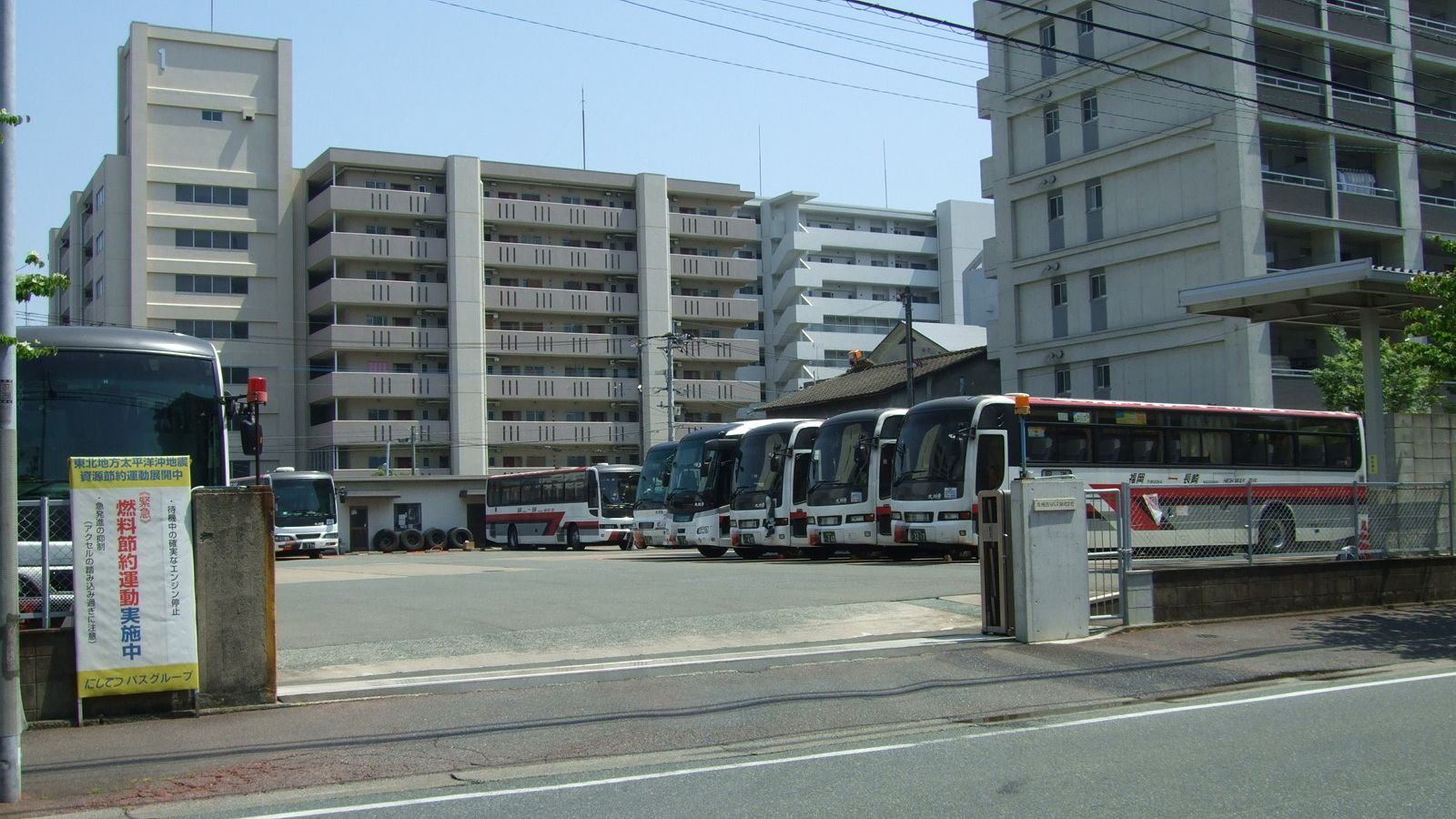 Kyushukyuko Bus Fukuoka Depot, Hakata Ward, Fukuoka City, Fukuoka, Japan.